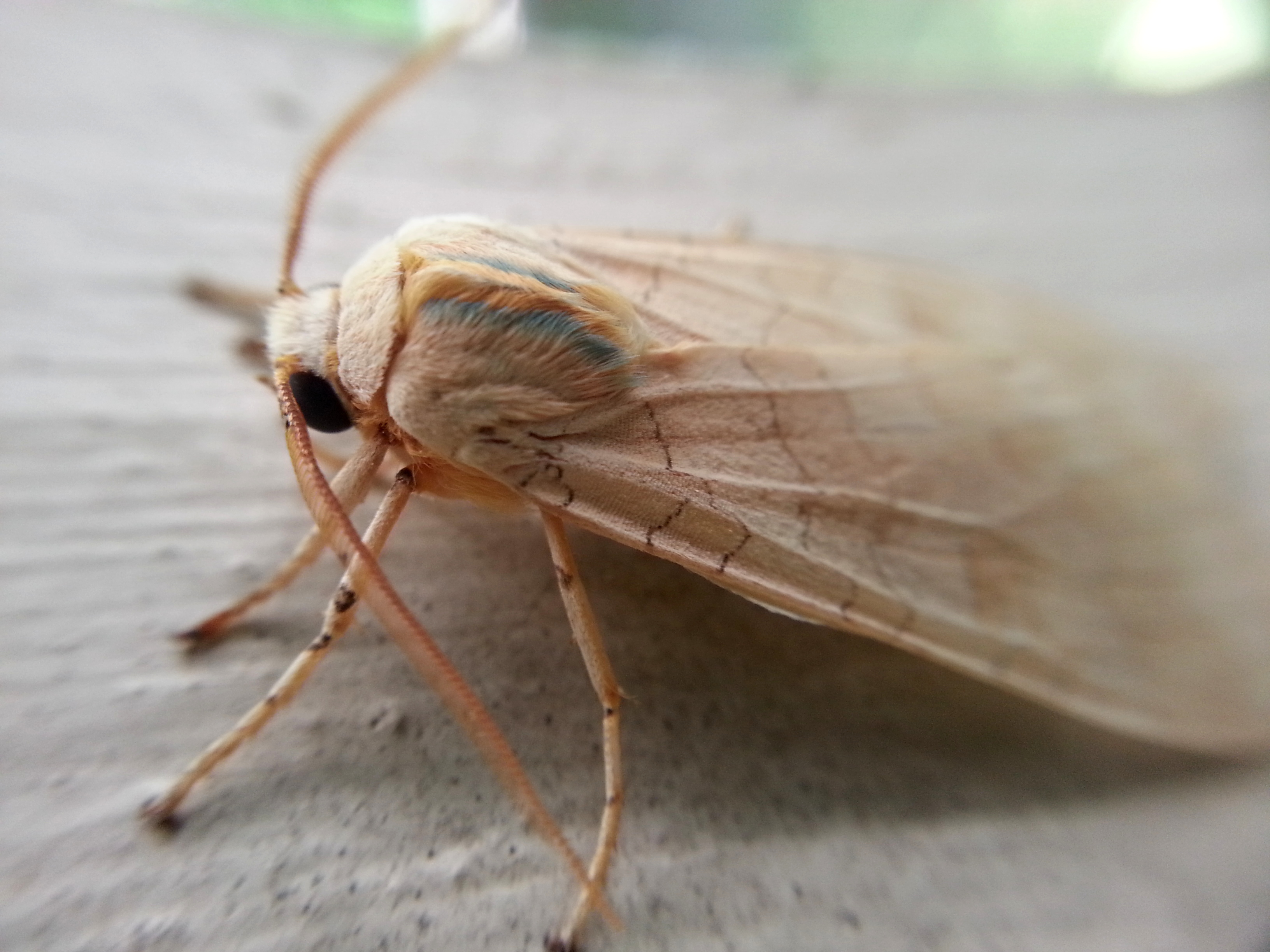 Banded tussock moth (Halysidota tessellaris). 2014-06 in Durham, North Carolina.